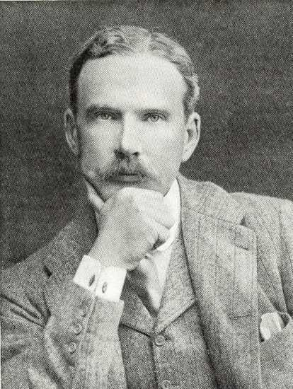 Portrait of british opera singer Harry Plunket Greene (1865-1936)